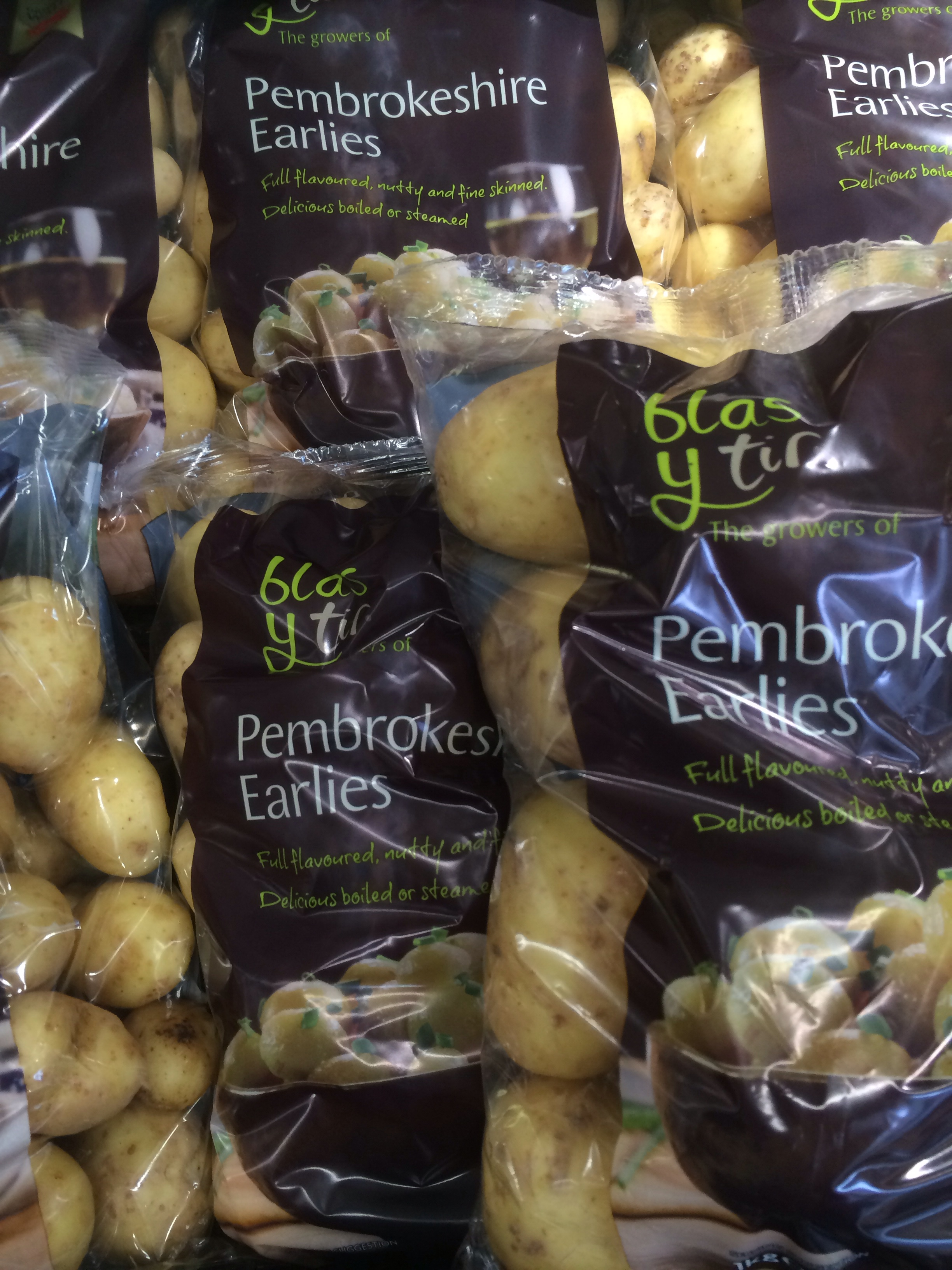 Pembrokeshire early potatoes in plastic bags produced by Blas y Tir for sale in a supermarket in Swansea